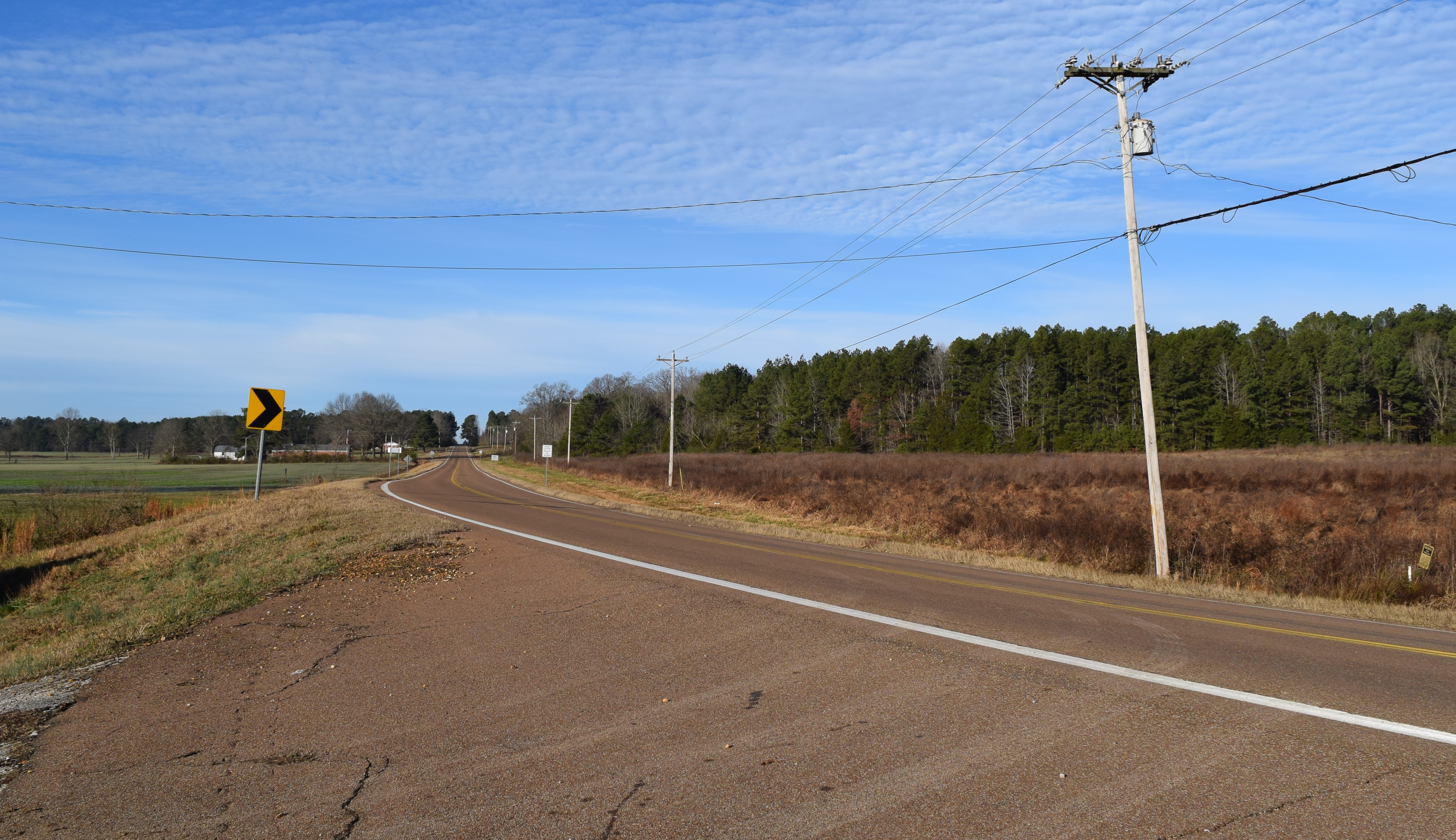 Looking west on Tennessee State Route 57 from in front of the Pocahontas School in Pocahontas, Tennessee